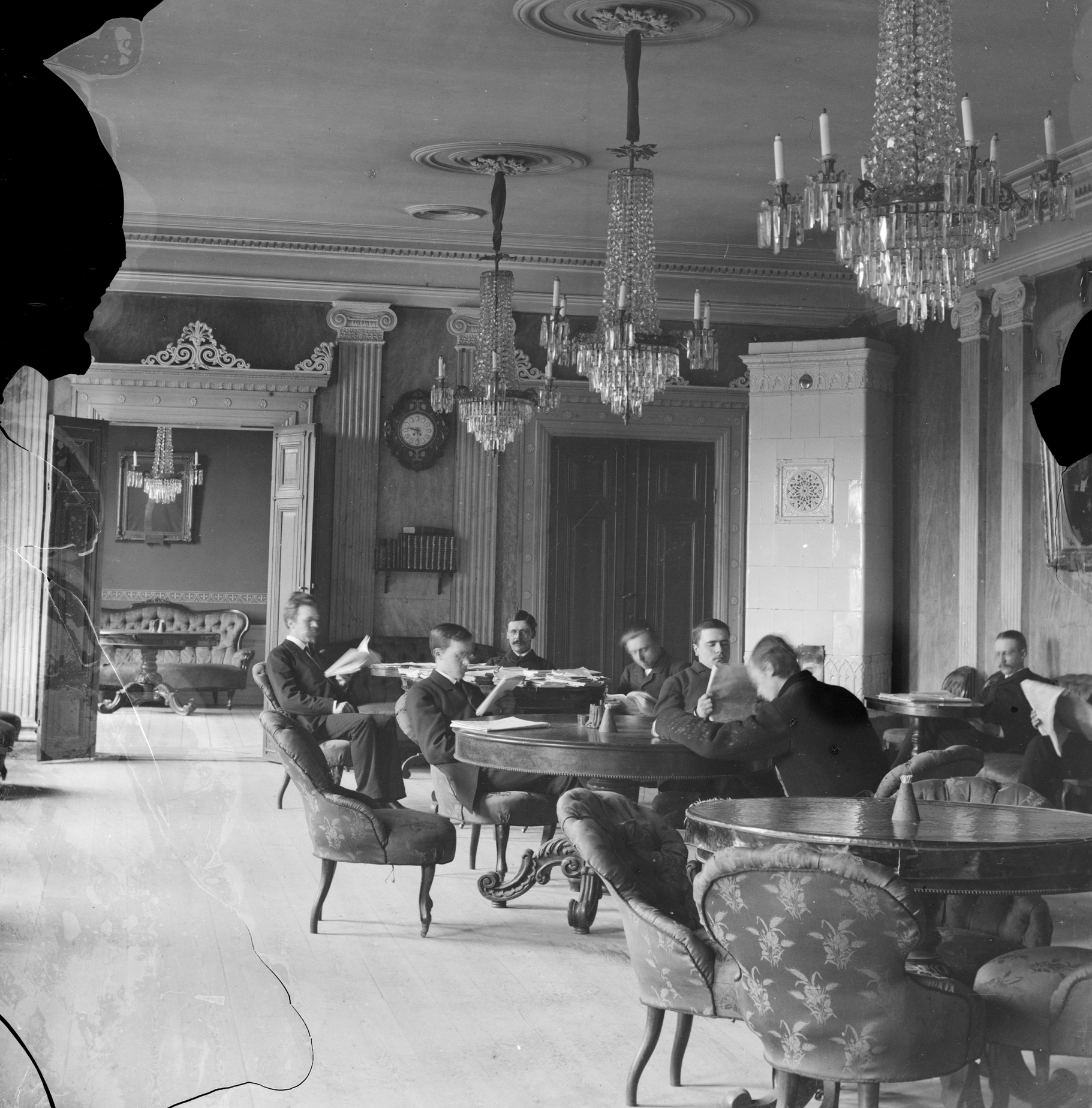 Stockholms nation, student society at Uppsala University in Sweden. The meeting hall (nationssalen), here furnished as a reading room. Photo from 1880s, published in 1915.2020 version published at digitaltmuseum.se